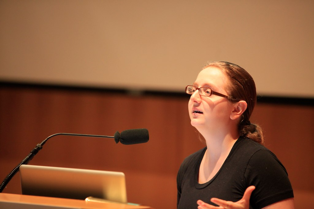 Picture of Limor Fried on the Open Hardware Summit 2010, Hall of Science, Queens, NY, USA